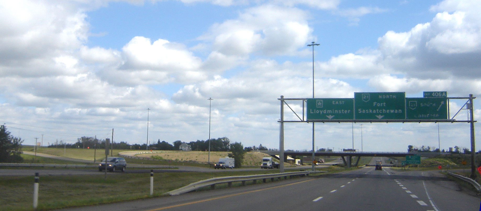 Exit 406 A Highway 16 east Lloydminster, Highway 21 North Fort Saskatchewan, Highway 21 South Camrose